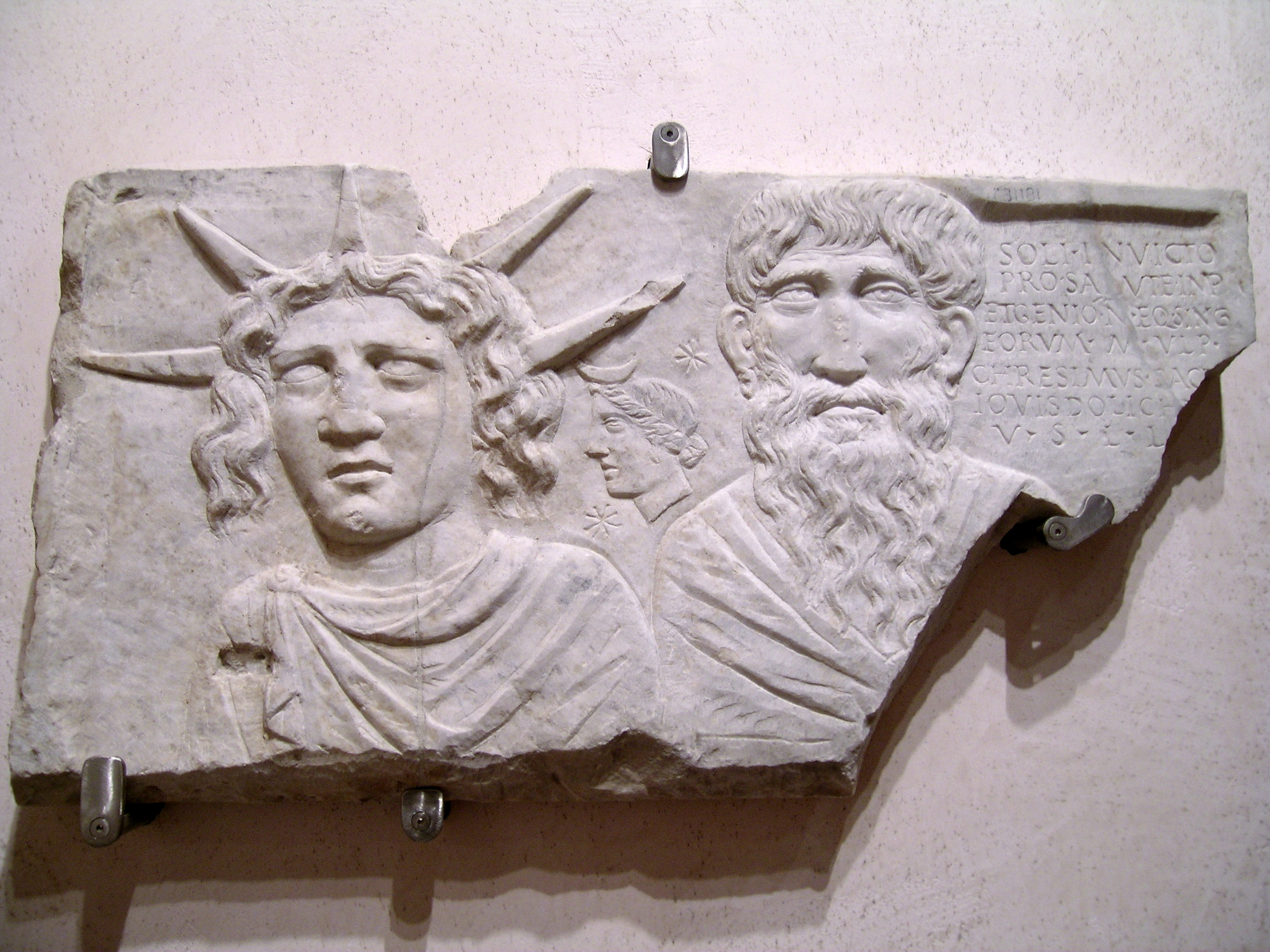 Sol Invictus and Jupiter Dolichenus. 2nd century. Museum of Dioclecian Baths (Rome)